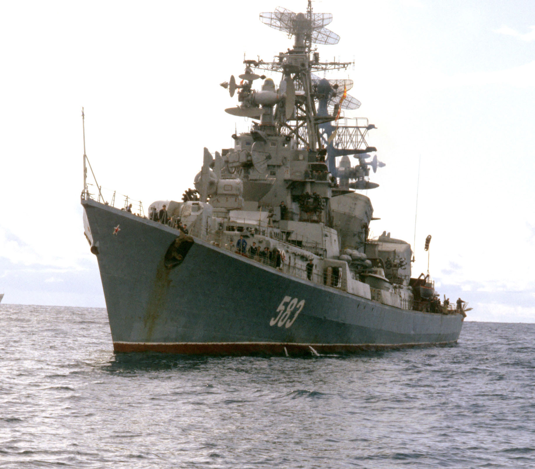 The Soviet Kashin class guided missile destroyer Odarennyy observes 7th Fleet, Task Force 71, ships as they participate in search operations for Korean Airlines Flight 007. All Hands Magazine - July 1984.